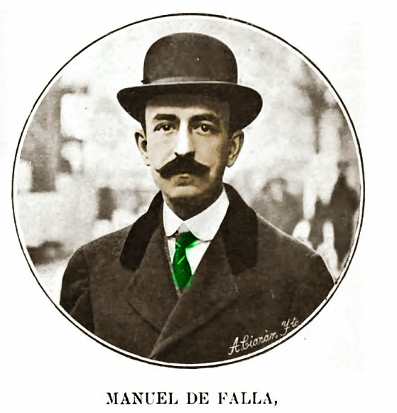 Manuel de Falla, Spanish composer